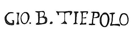 autograph of the painter Tiepolo